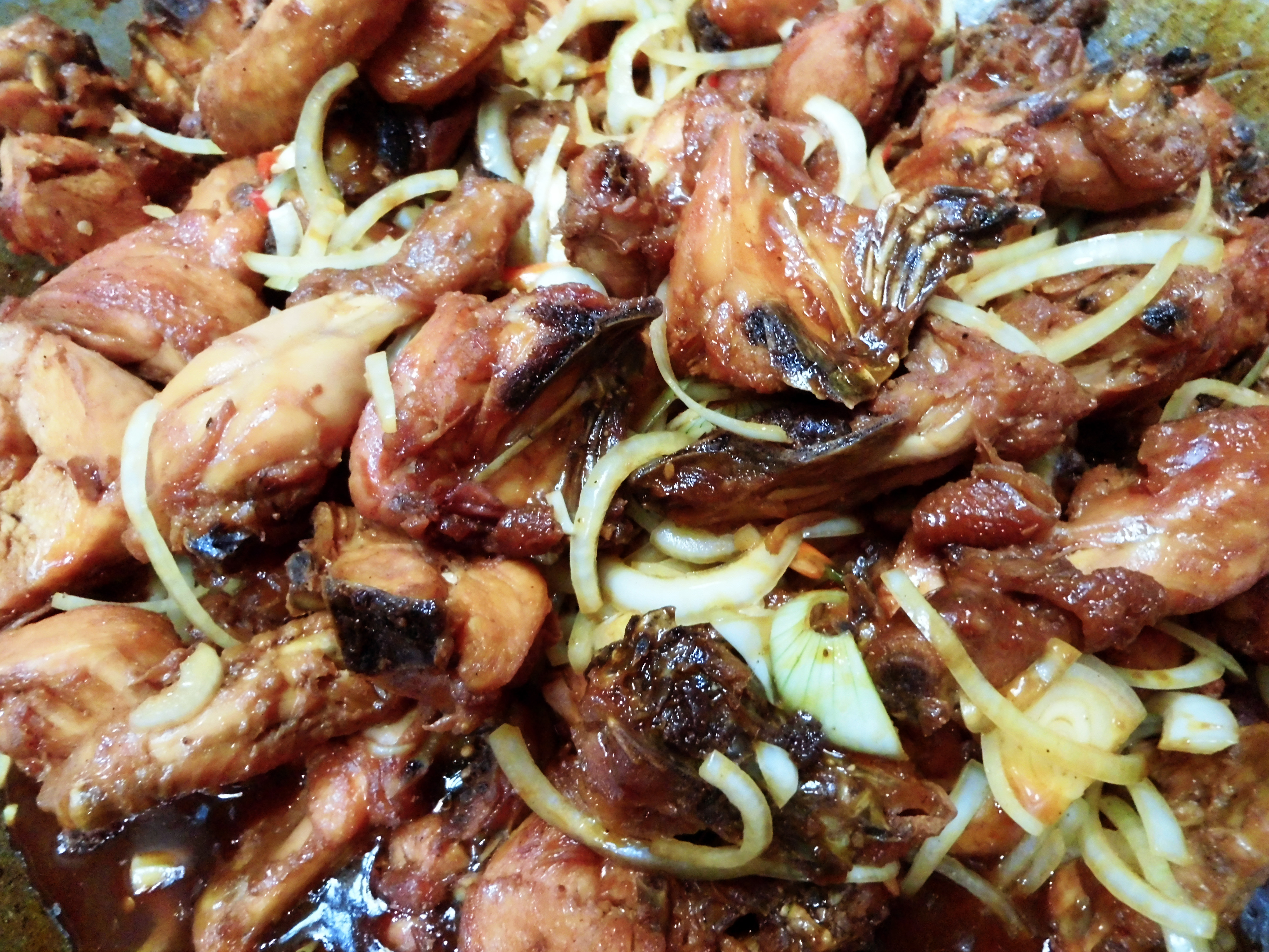 Ayam Kecap, Indonesian fried chicken in sweet soy sauce. Typical chicken dish commonly served across Indonesia, but more precisely of Javanese-Chinese origin. Cooked in Ibu Sulastri Catering kitchen in Rawasari, Central Jakarta, Indonesia.